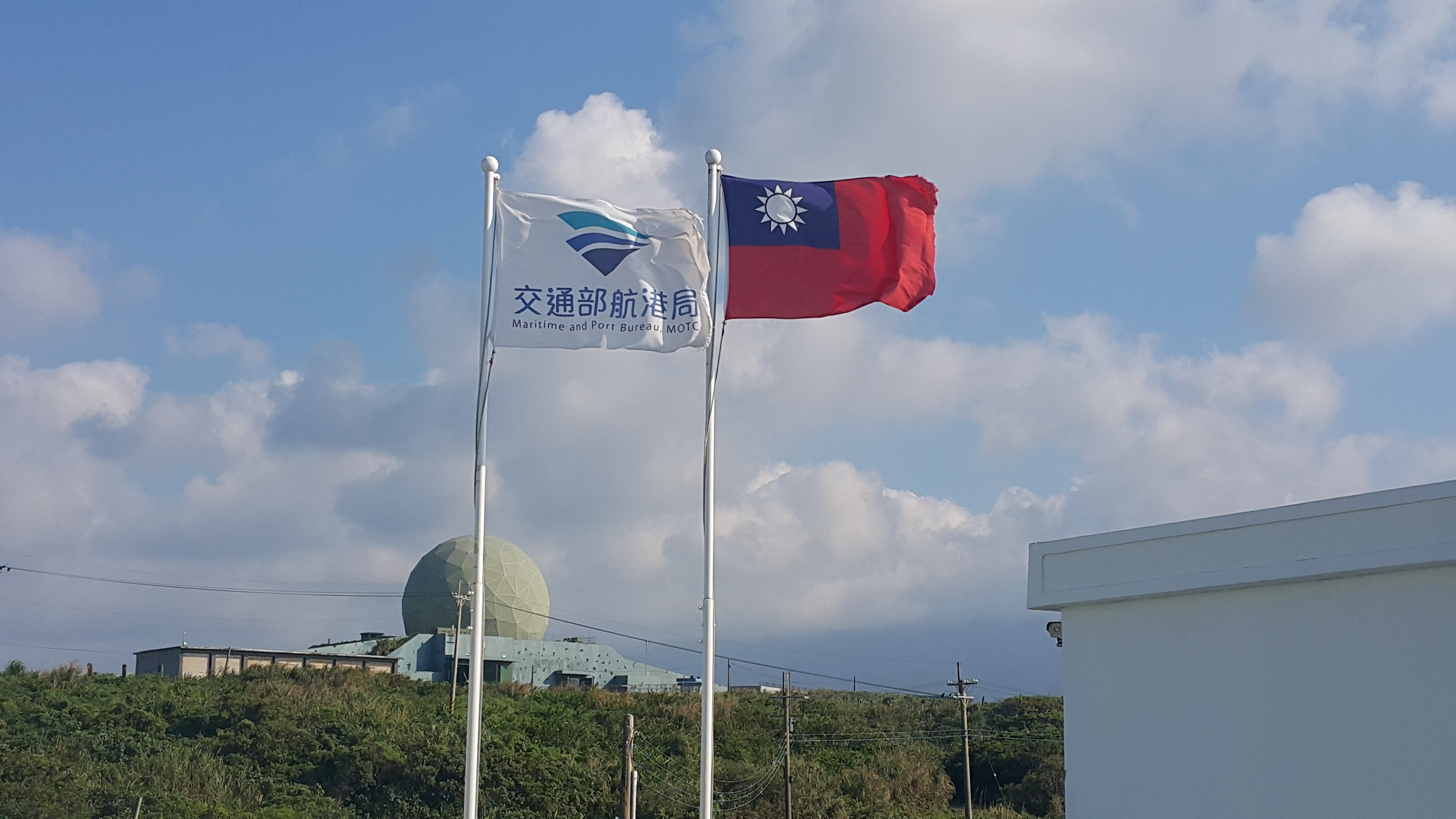 Flag of Republic of China (right) and flag of Maritime and Port Bureau (left), flying at Fuguijiao Lighthouse.